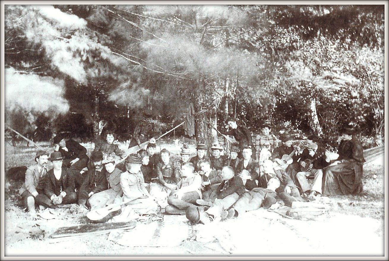 MYRA ALBERT (Wiggins)'S MEMORIAL DAY 1891 PICNIC PHOTO OF HER FRIENDS Taken by John Singleton's 1st cousin Myra Albert, in Salem, Oregon 1891